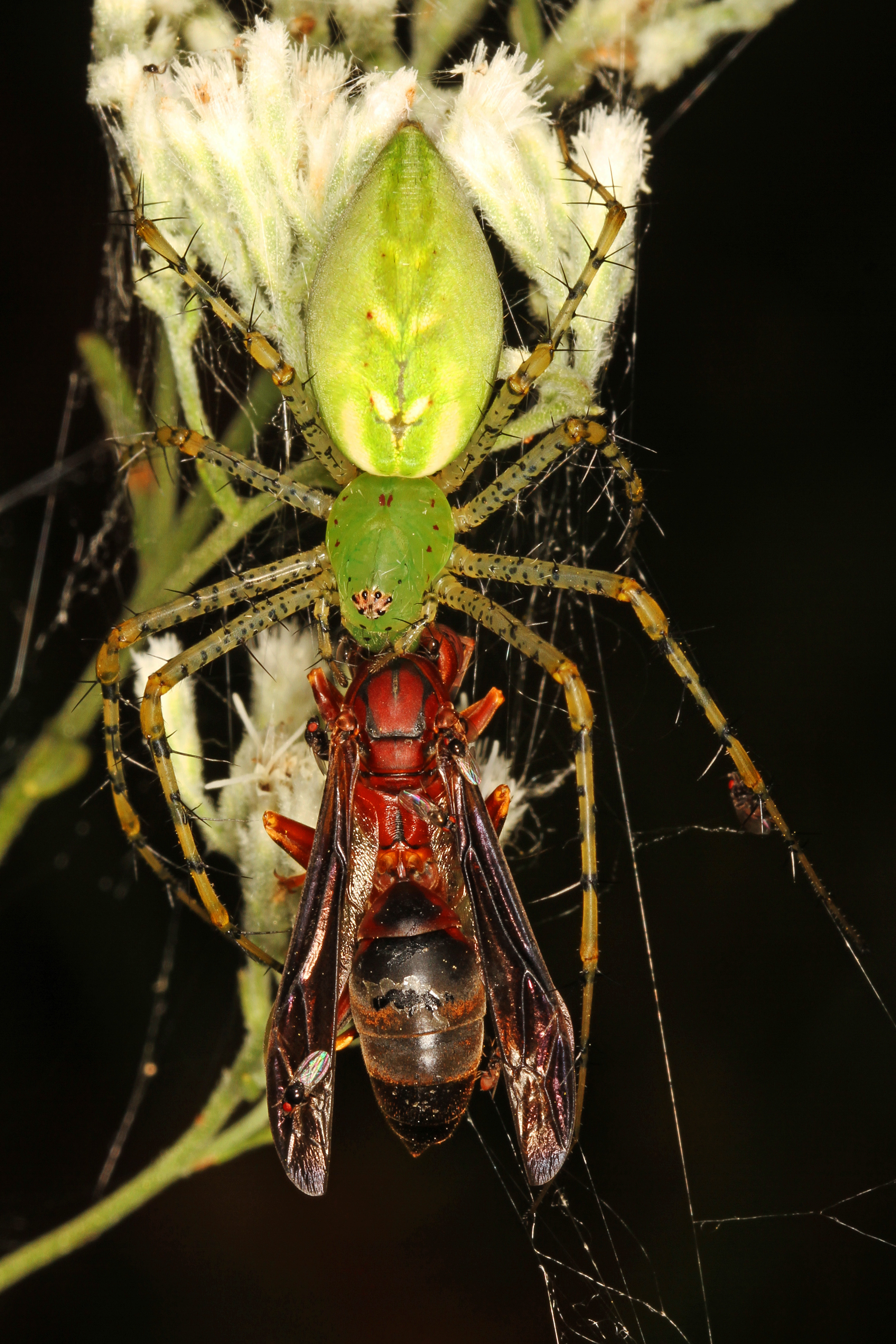 Green Lynx Spider - Peucetia viridans, Green Swamp, Supply, North Carolina There are at least 5 tiny flies on the wasp, and one on the spider's legs.